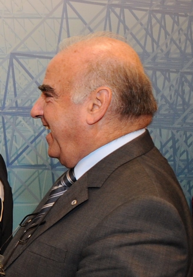 U.S. Secretary of State John Kerry greets British Foreign Secretary William Hague and Foreign Minister George Vella of Malta before the start of a meeting of EU Foreign Ministers in Vilnius, Lithuania, on September 7, 2013. [State Department photo/ Public Domain]